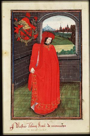 Statuts, Ordonnances et Armorial de l'Ordre de la Toison d'Or (Statutes, Ordonnances and armorial of the Order of the Golden Fleece) Place of origin, date: Southern Netherlands; 1473. Added sections: Southern Netherlands; 1478 or shortly after and 1491 or shortly after Material: Vellum, ff. 86, 249x187 (167x106) mm, 23 lines, littera cursiva (lettre bourguignonne). French. Binding: 18th-century brown leather Decoration: 1 full-page miniature (170x115 mm) with border decoration; 92 miniatures (185/155x120/100 mm); 1 historiated initial (80x90 mm) with border decoration; decorated initials with border decoration (ff., Added section: miniatures ; 4 drawings for miniatures (not finished) Provenance: Presented in 1473 by Gilles Gobet, King of Arms of the Order of the Golden Fleece, to Charles the Bold, Duke of Burgundy and the other Knights during the Chapter of the Order held at Valenciennes; Treasure of the Golden Fleece, Brussls; taken away by the Treasurer C.-F. Humyn (d. 1735) or his daughter C.Ch. de Corte; by legacy to her daughter M.-L. de Corte, wife of Ph.-E. de Poederlé; purchased in 1781 at the Poederlé sale by G.-J- Gérard of Brussels; acquired in 1832 as part of the Gérard collection (no. A 27)